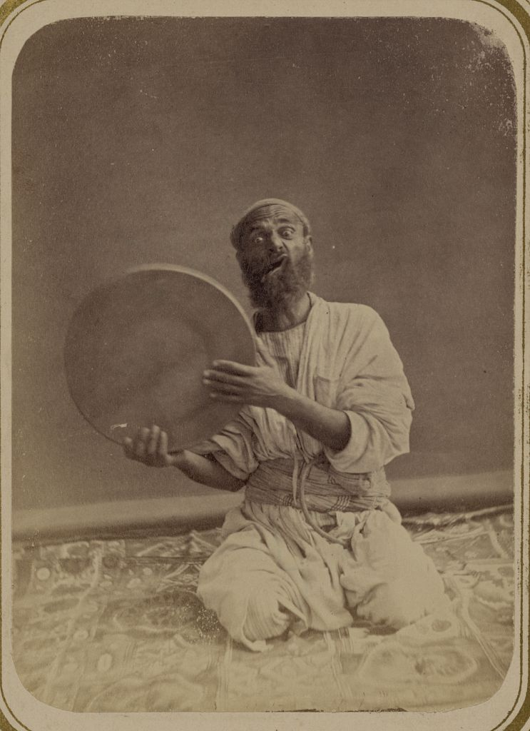 A Central Asian musician holding up a dayra (or frame drum), a traditional instrument of the region, while making a comical face.